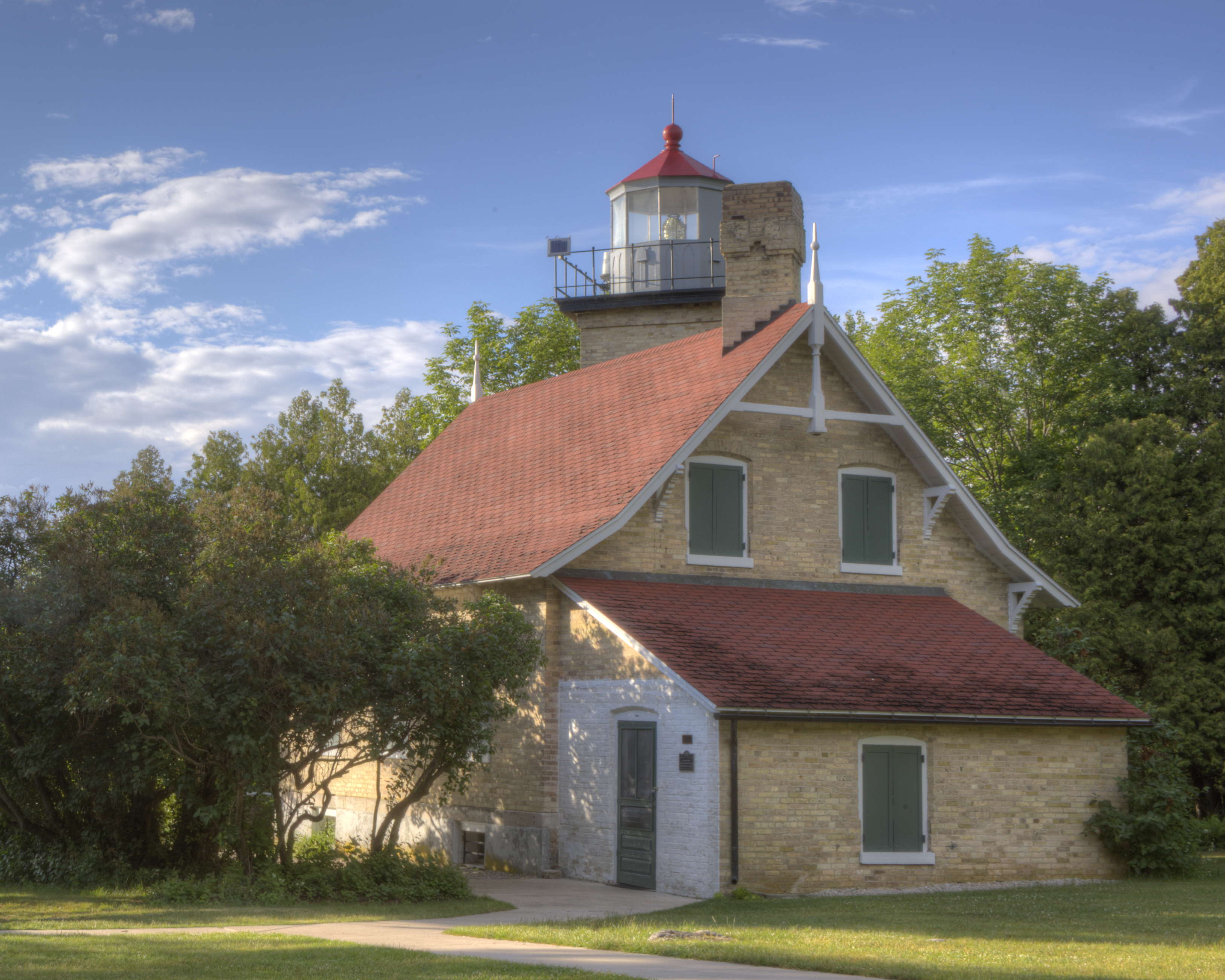 This is a photo of the “Eagle Bluff Lighthouse” that was built in 1868. The Eagle Bluff Lighthouse is located in Peninsula State Park in Door County, Wisconsin. It was built on orders from President Andrew Johnson. Construction costs total $12,000.